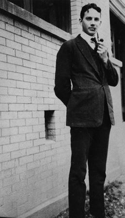 Thomas Wolfe standing outside Vance Hall at the University of North Carolina, 1920